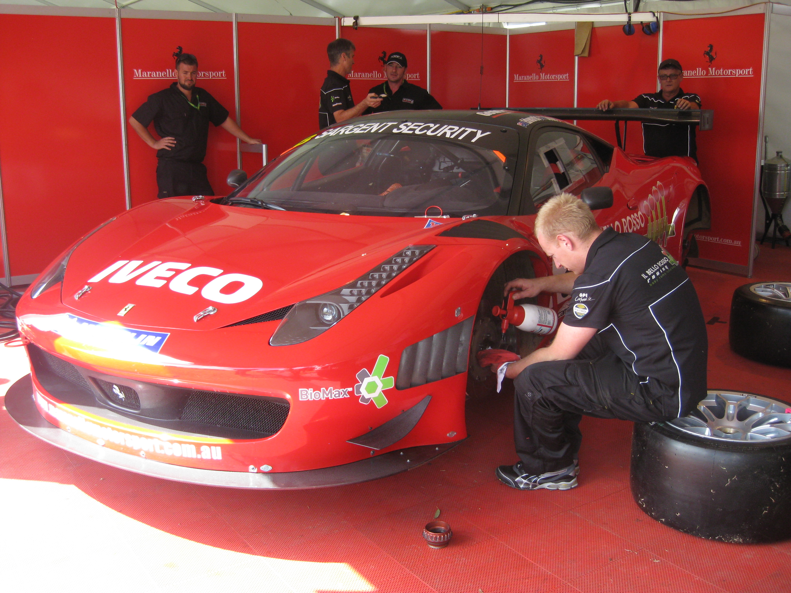 Ferrari 458 Italia GT3 of Maranello Motorsport at the opening round of the 2012 Australian GT Championship